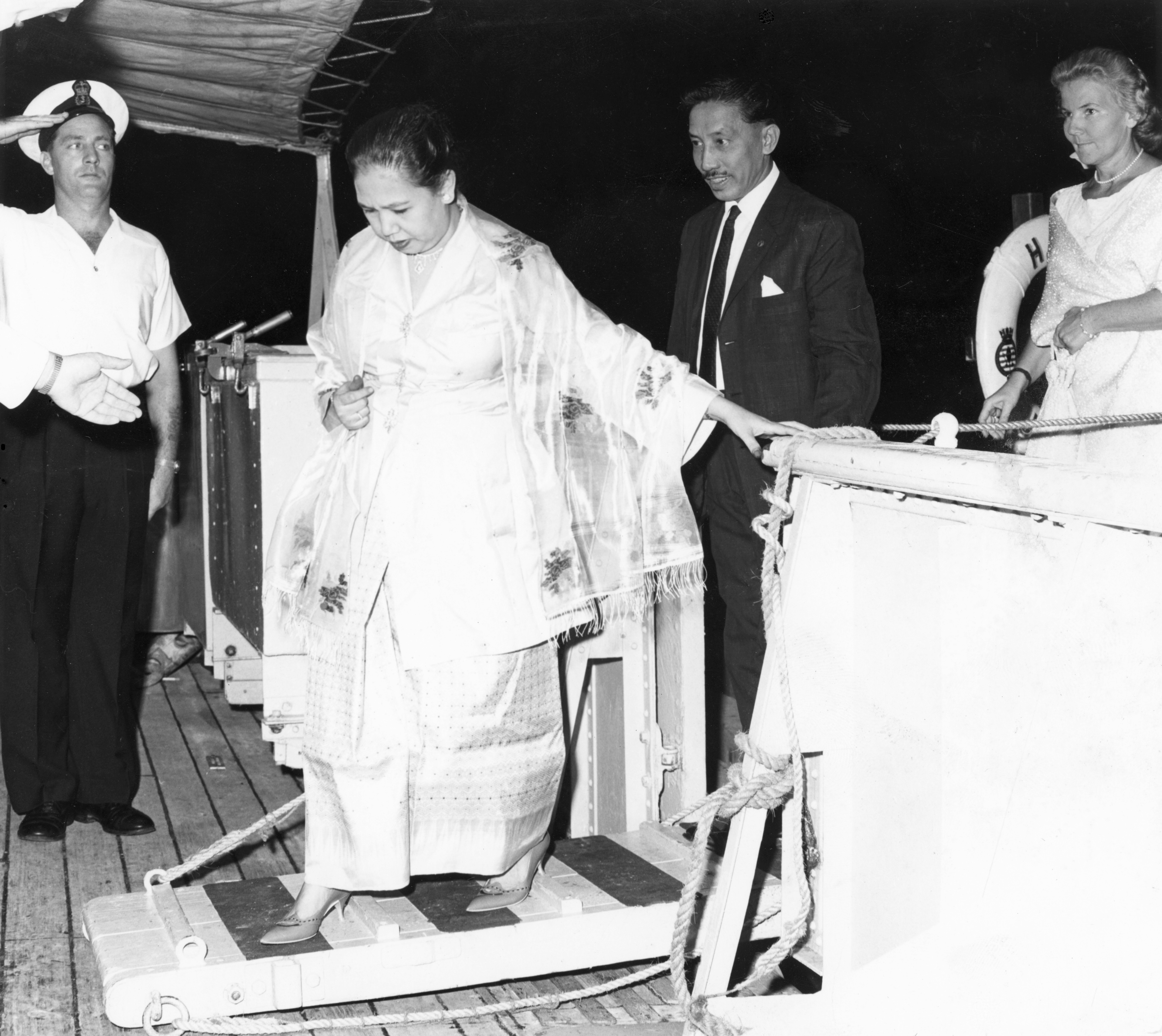 Visit of a British Navy ship by the Brunei Sultan Omar Ali Saifuddien III. In front of him is his wife Raja Isteri Pengiran Anak Damit, behind his personal secretary Marianne Elisabeth Lloyd-Dolbey. The photograph was taken in the early 1960s.